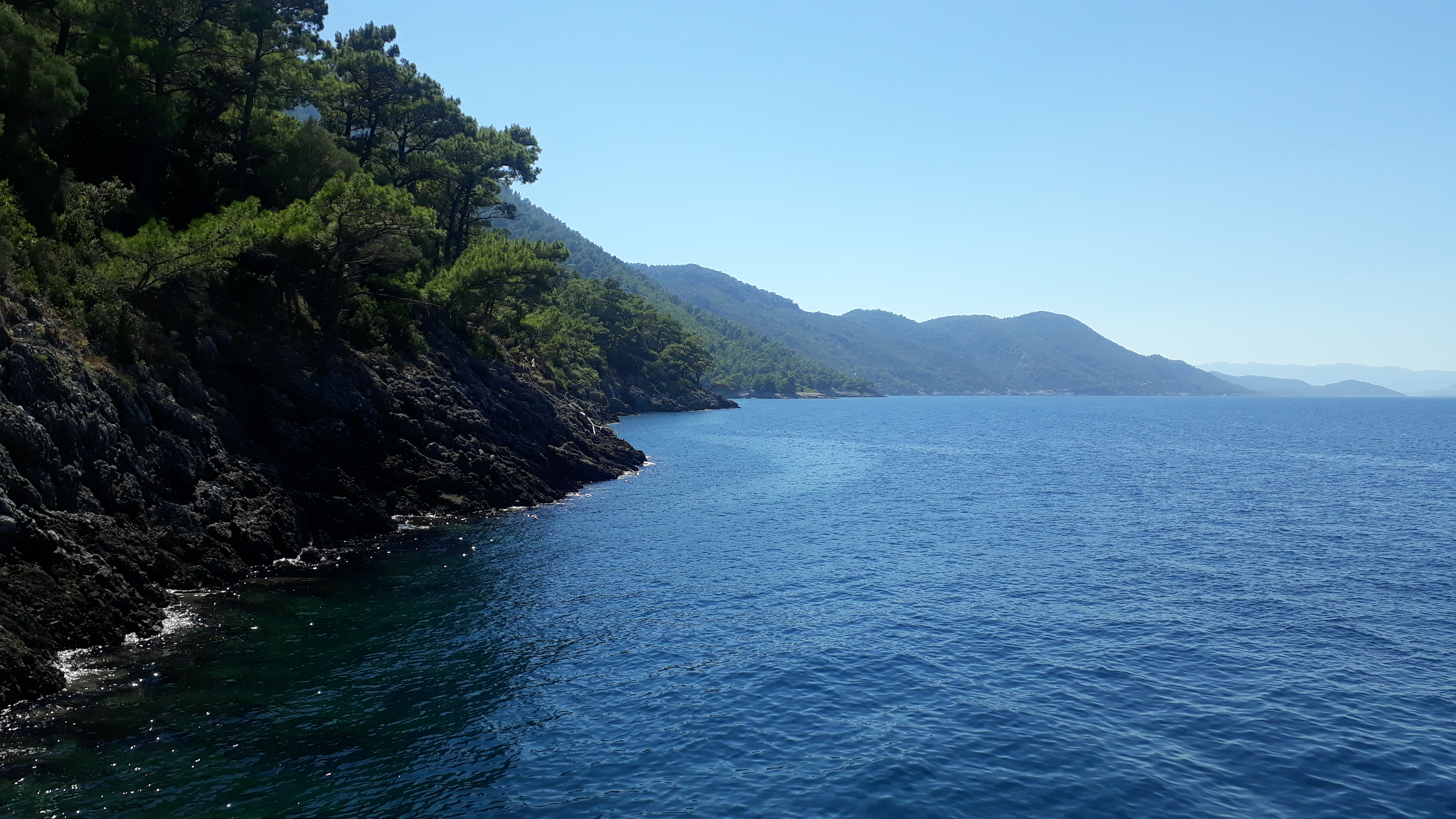 Mycale promontory